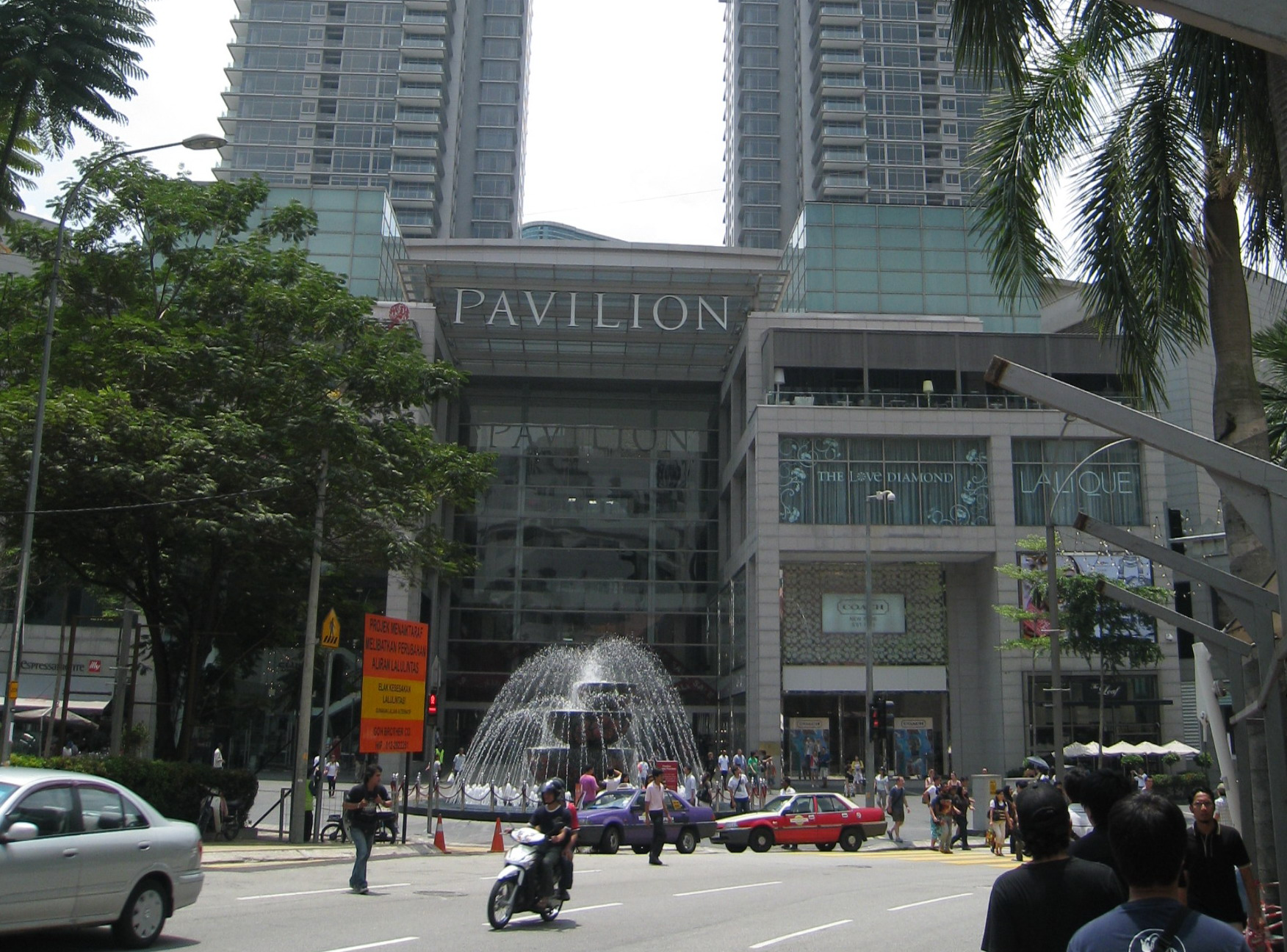 Pavilion Kuala Lumpur